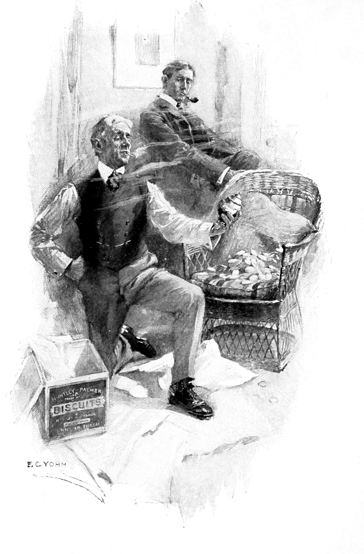 Illustrations from the book Raffles (Charles Scribner's sons, 1906), written by E. W. Hornung and illustrated by F. C. Yohn